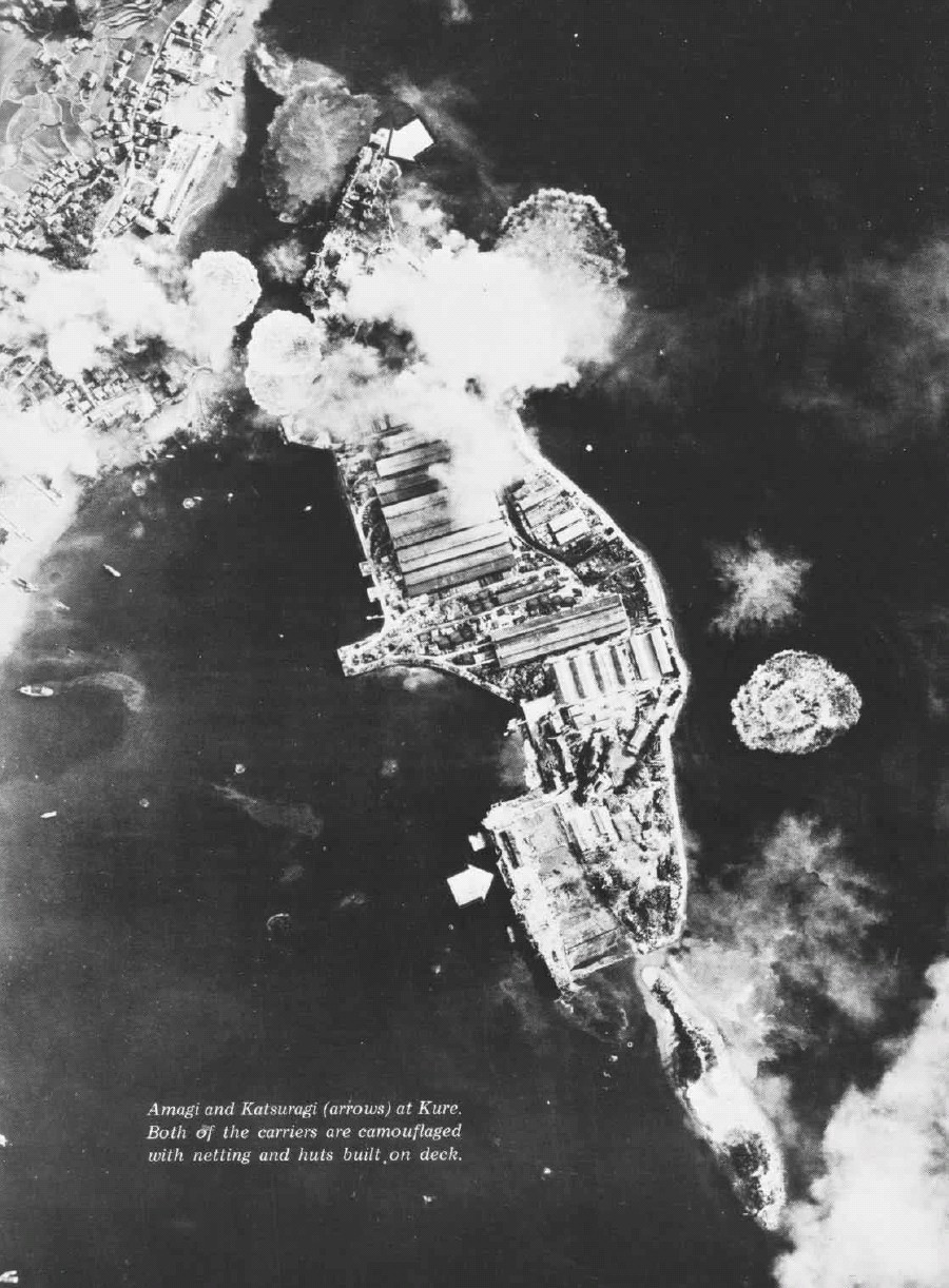 Aerial photograph of an attack of U.S. Navy planes on the Japanese naval base at Kure in 1945. The two camouflaged Japanese aircraft carrier Amagi and Katsuragi are marked by arrows.